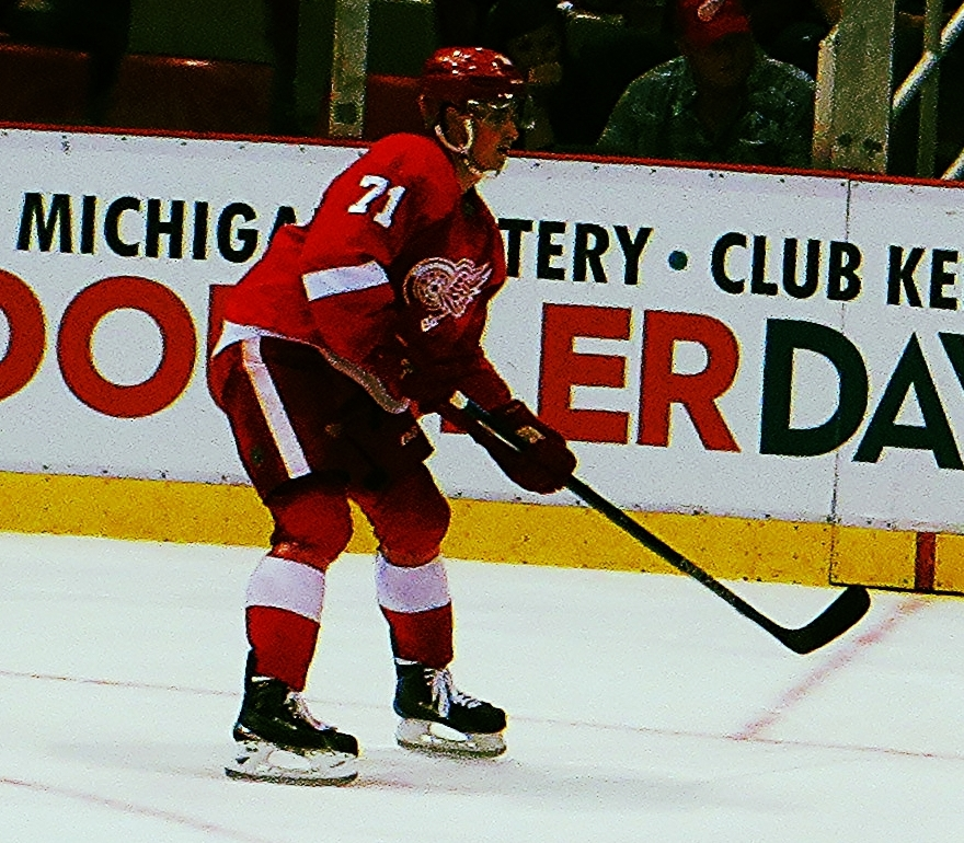 The Detroit Red Wings would ultimately prevail in this preseason match by a score of 6 to 1 over the visiting Pittsburgh Penguins.